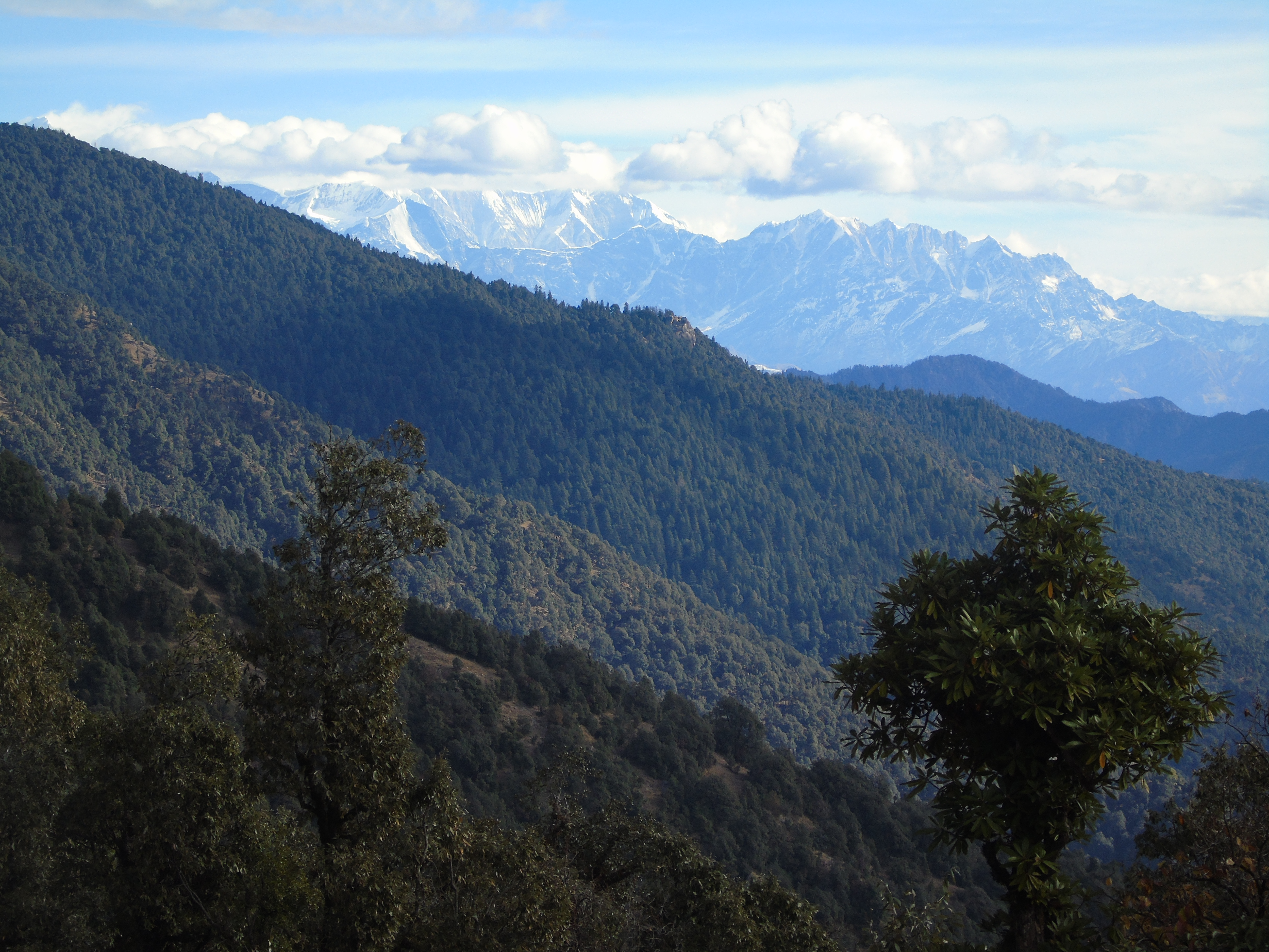 View of Brahma-dhungi (The giant rock at the centre of the image) in the southern flank of Dudhatoli mountains with the great Himalayas in the background; as seen from Peethsain in Pauri Garhwal.